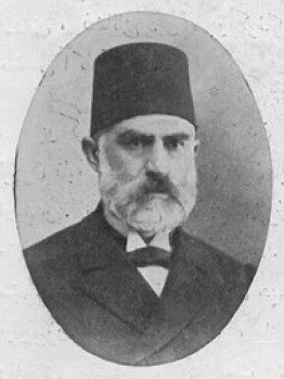 Nafi Pasha Ottoman governor and statesman.